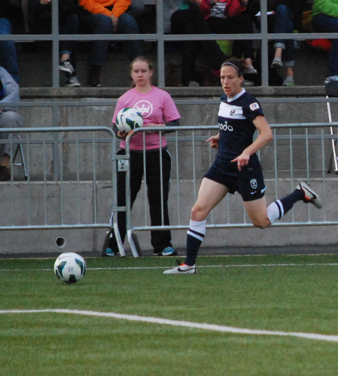 Seattle Reign FC forward Liz Bogus during a match against the Portland Thorns at Starfire Stadium in Tukwila, Washington on May 25, 2013